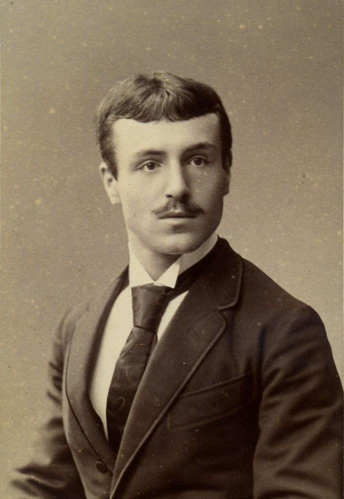 Adolf Höfer (1869–1927), German painter and illustrator, as a young man (around 1890)